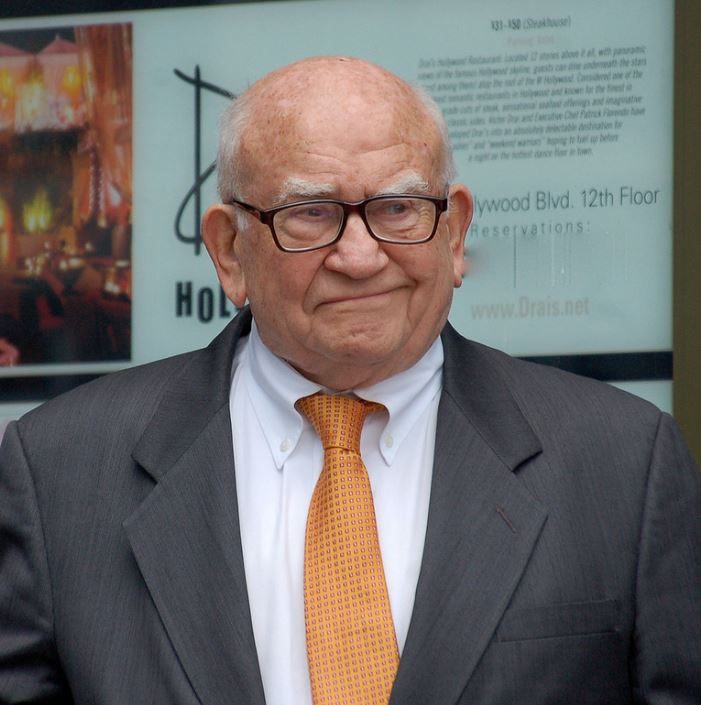 Ed Asner at a ceremony for Olympia Dukakis to receive a star on the Hollywood Walk of Fame